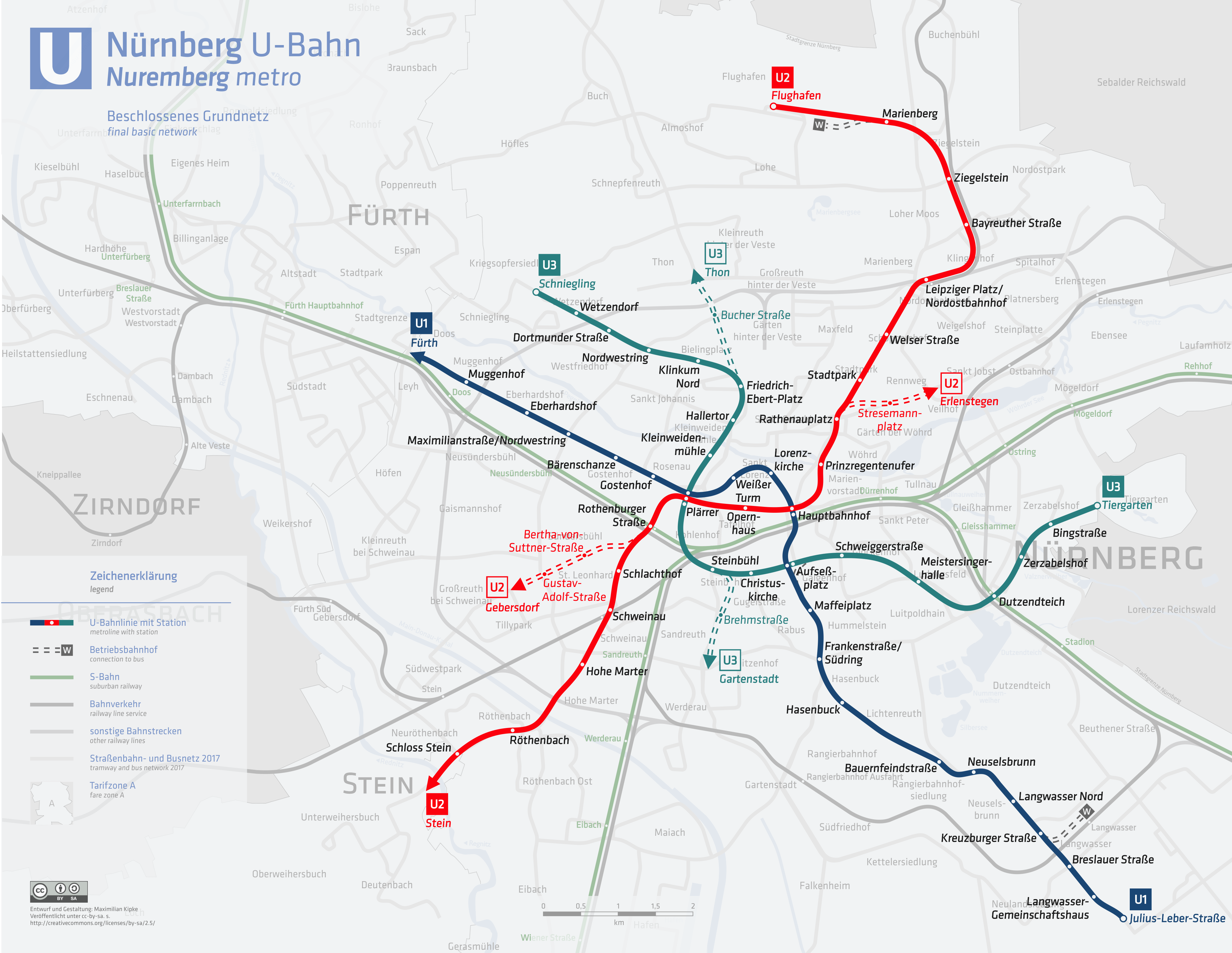 final basic network of nuremberg metro